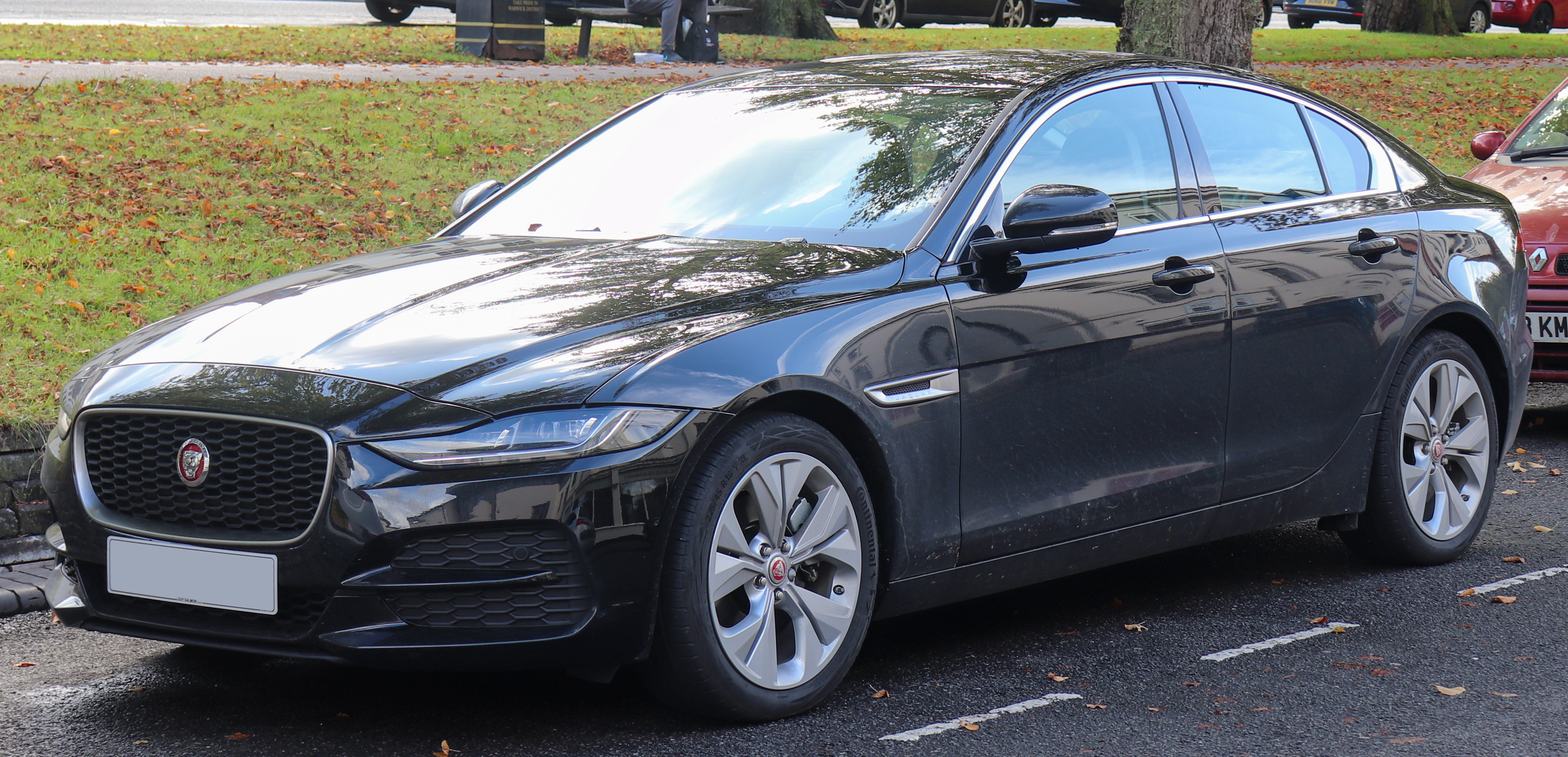 2019 Jaguar XE S Automatic 2.0 Taken in Leamington Spa